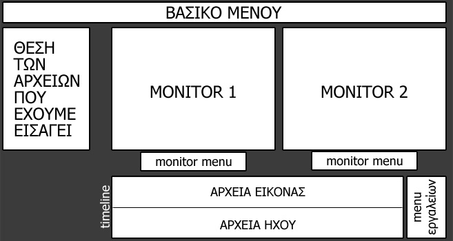 Περιβάλλον Προγράμματος Μοντάζ